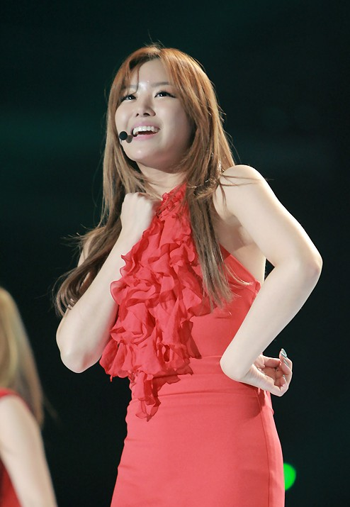 Song Jieun at K Collection in Seoul on 9 March 2012.